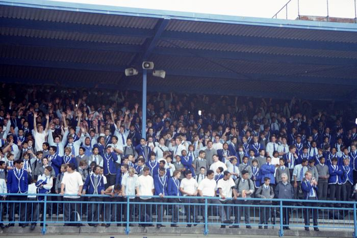 Picture taken by myself from the track looking up at the stands at the annual McEvedy Shield carnival